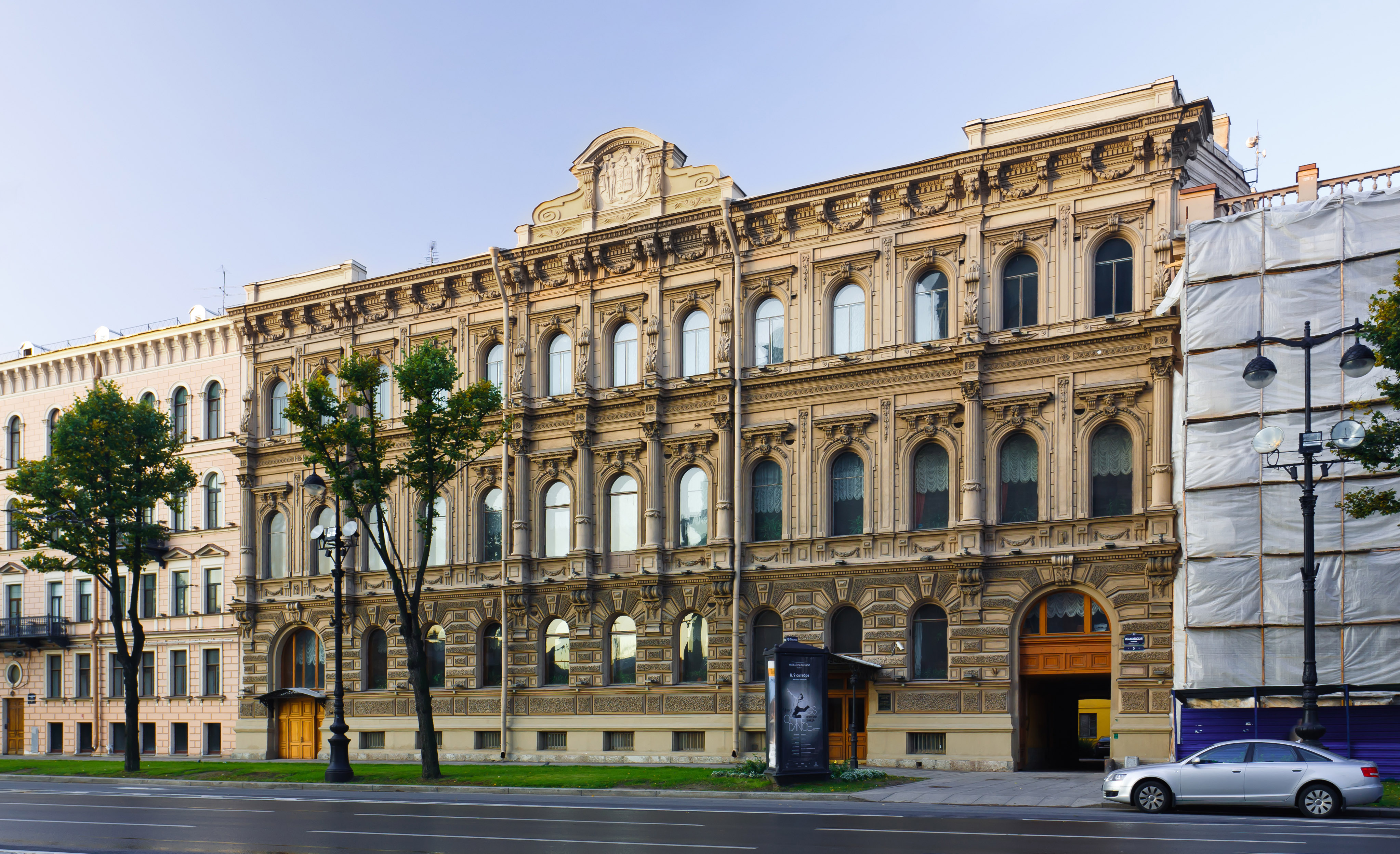 Zakrevskiy's (or Zubov's) house